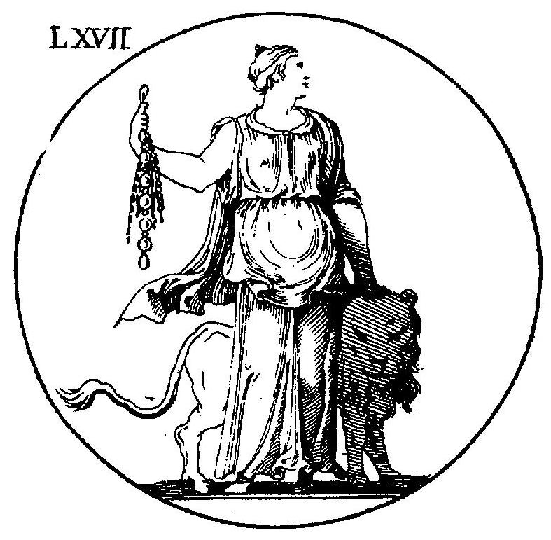 Cesare Ripa, Iconologia, translated into French by Jean Baudoin, 1643 edition.